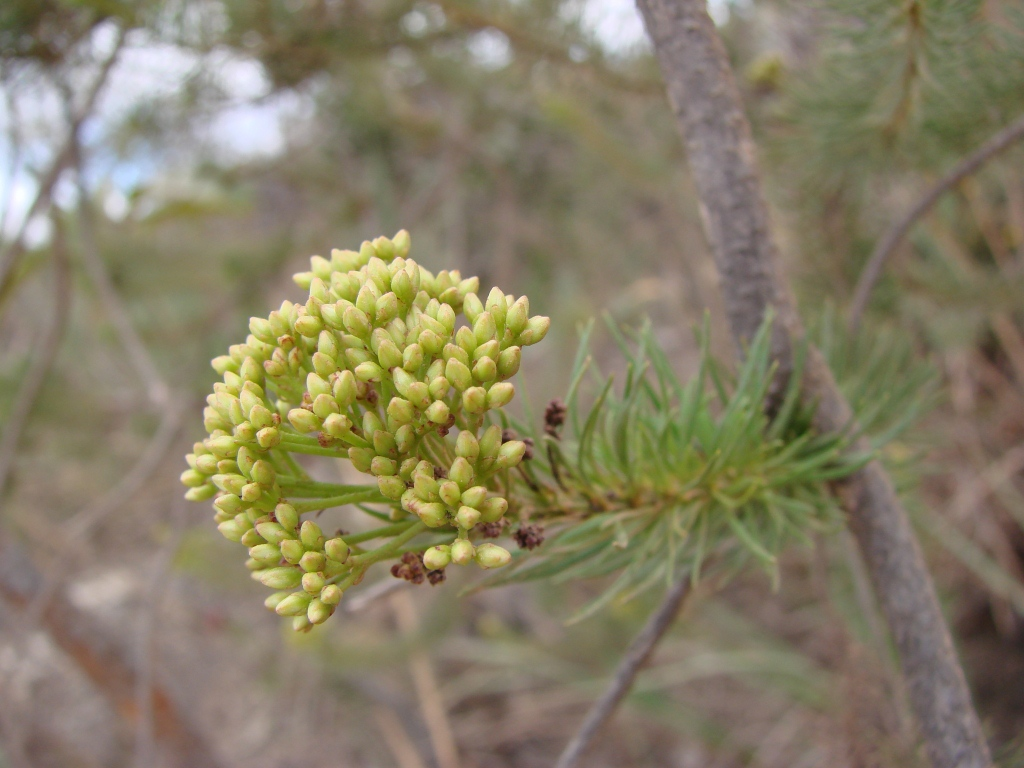 Pseudobrickellia brasiliensis (Spreng.) R.M.King & H.Rob. (sin. het. Brickellia pinifolia (Gardner) A.Gray ) - ASTERACEAE - Parque Estadual do Biribiri - Diamantina - Minas Gerais - Brasil.